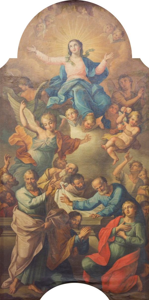 The Assumption of the Virgin, 1825, by José Inácio de Sampaio (copied from an earlier painting by Pedro Alexandrino de Carvalho). Lisbon Cathedral.